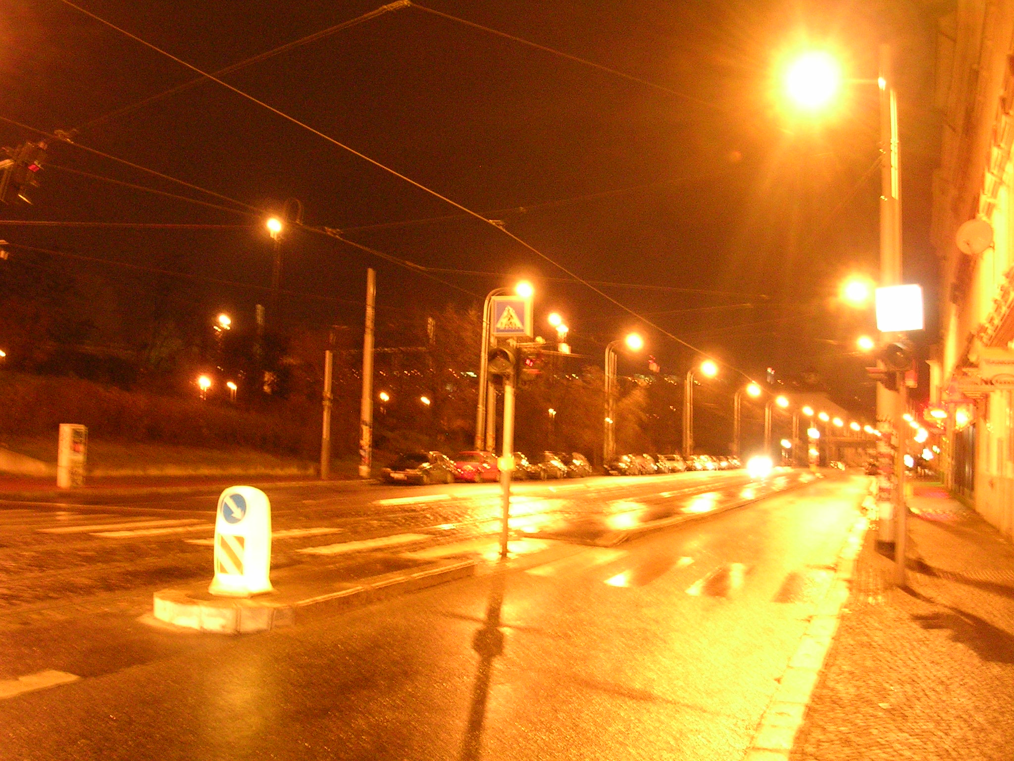 Smíchov, Prague, the Czech Republic. Nádražní Street at night.